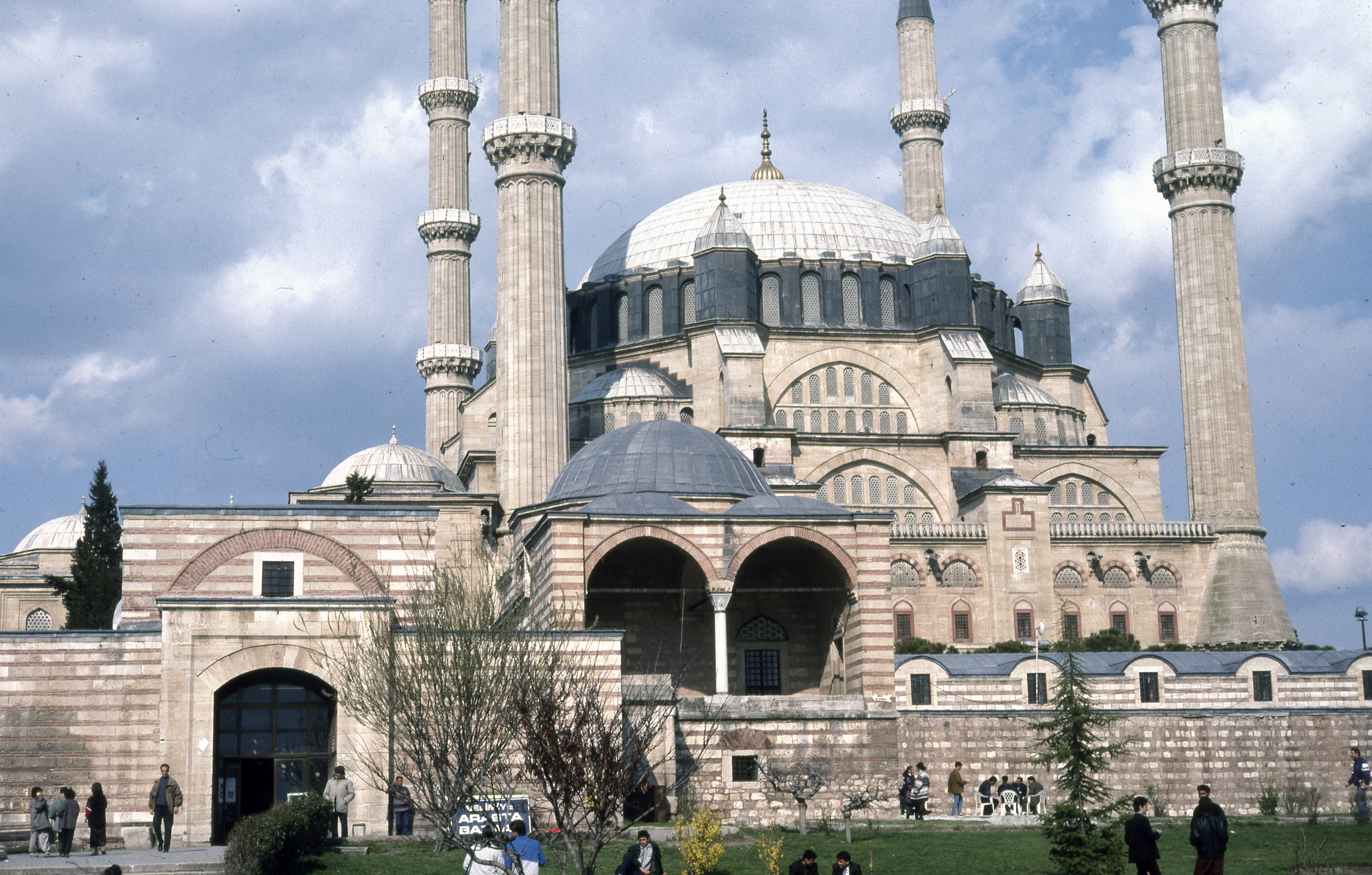 built by architect Sinan for Sultan Selim II. The mosque is the pinnacle of classical Ottoman building. Sinan called the Princes’ (Şezade) Mosque in Istanbul his apprentice work, the Süleymaniye his journeyman’s work, and the Selimiye his masterpiece. He was 85 when he finished it.